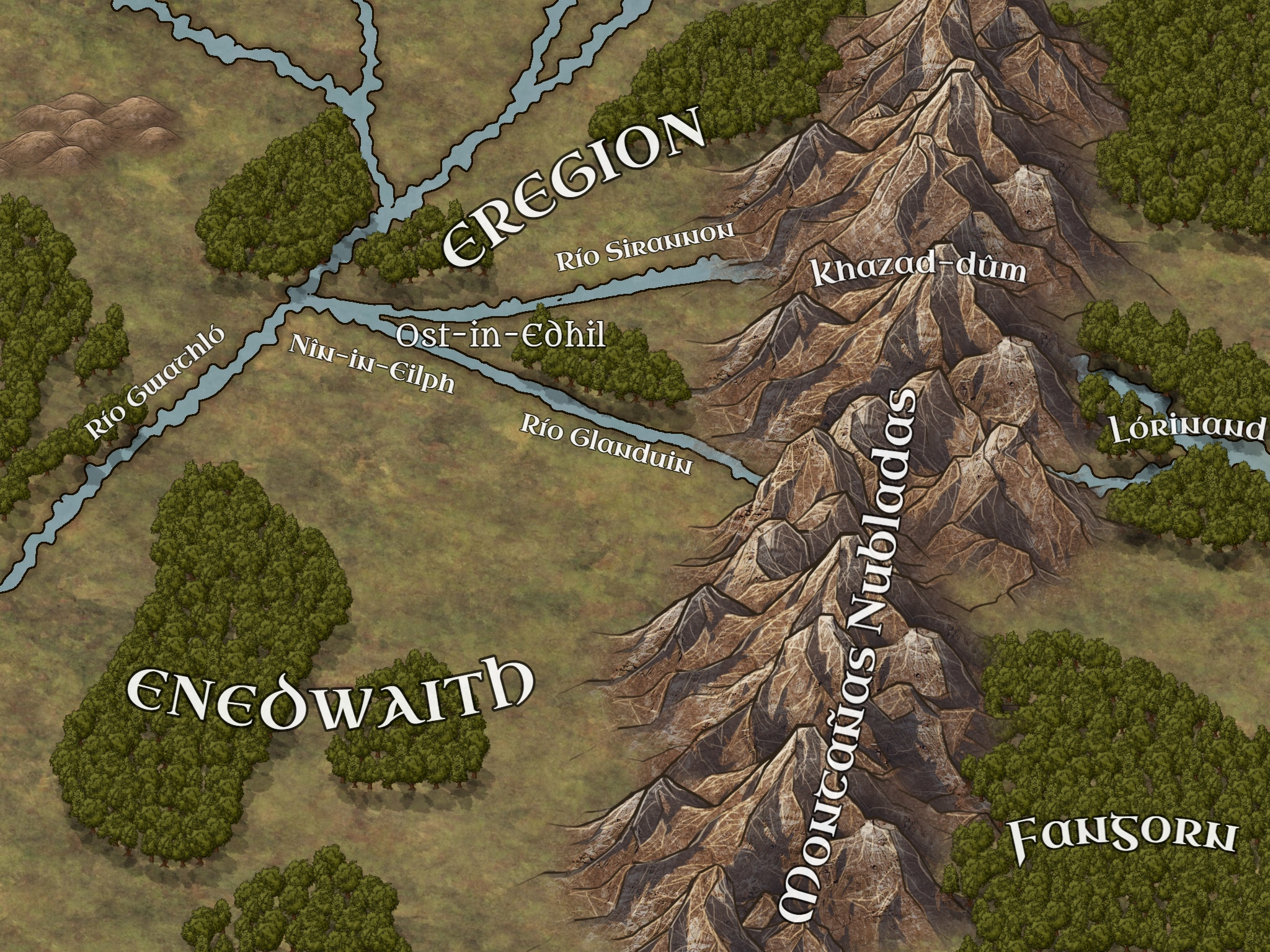 Map of Eregion in the Second Age, where lies their capital